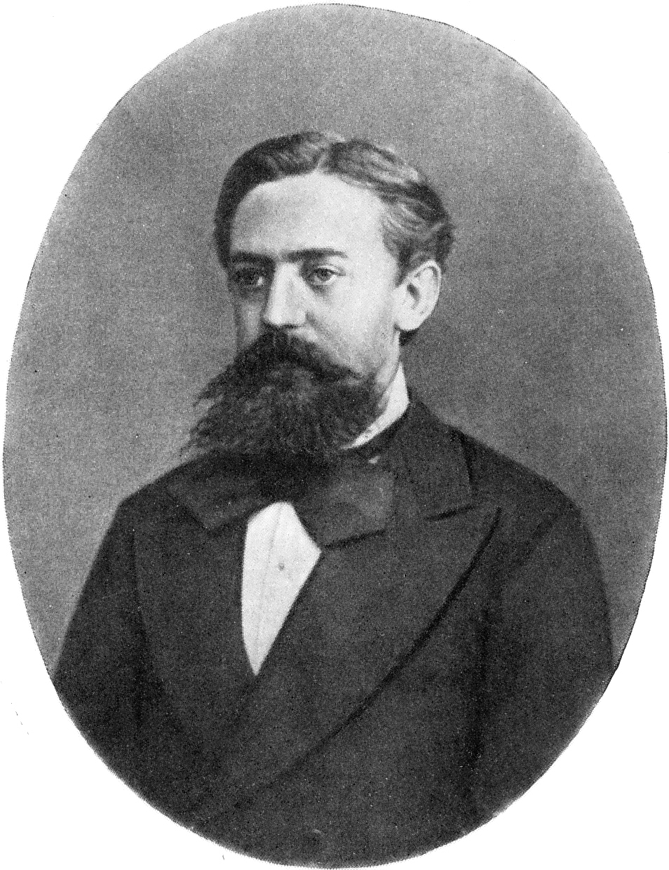 Photo of mathematician Andrey Markov